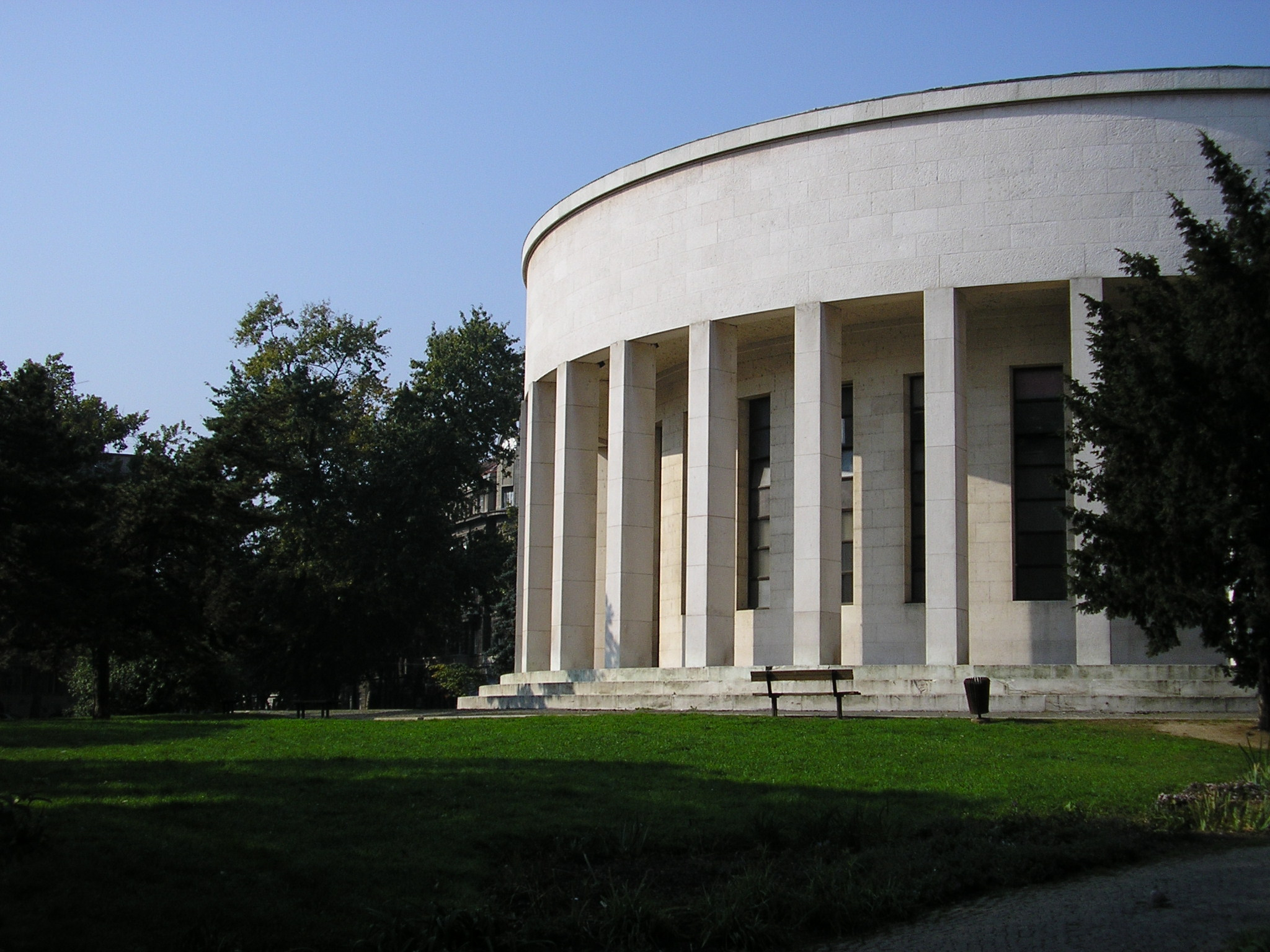 Building by Ivan Meštrović in Zagreb (House of Visual Arts, commonly known as Džamija "Mosque")